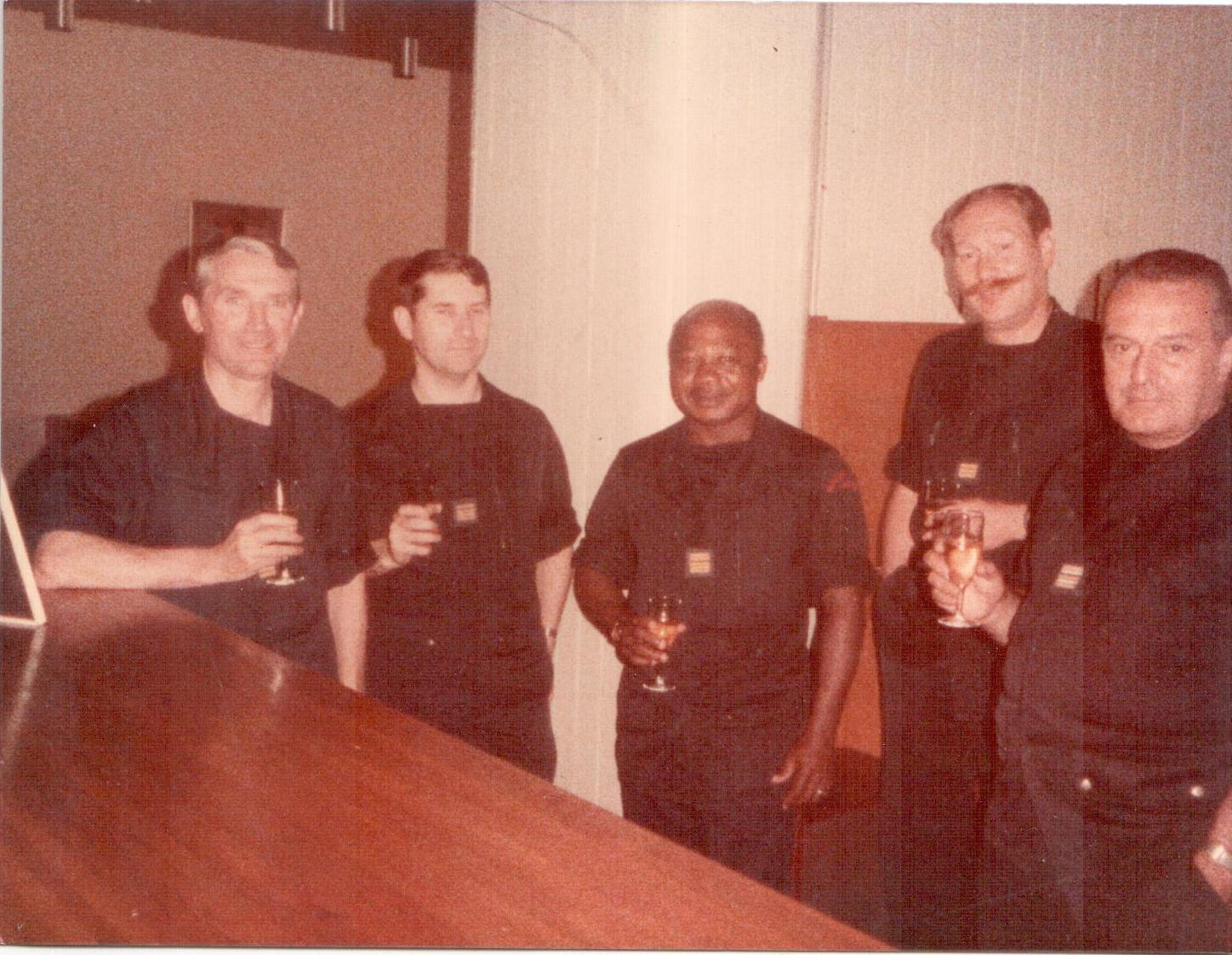 Stage Pompier